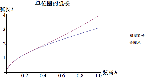 比较会圆术弧长公式与圆周弧长